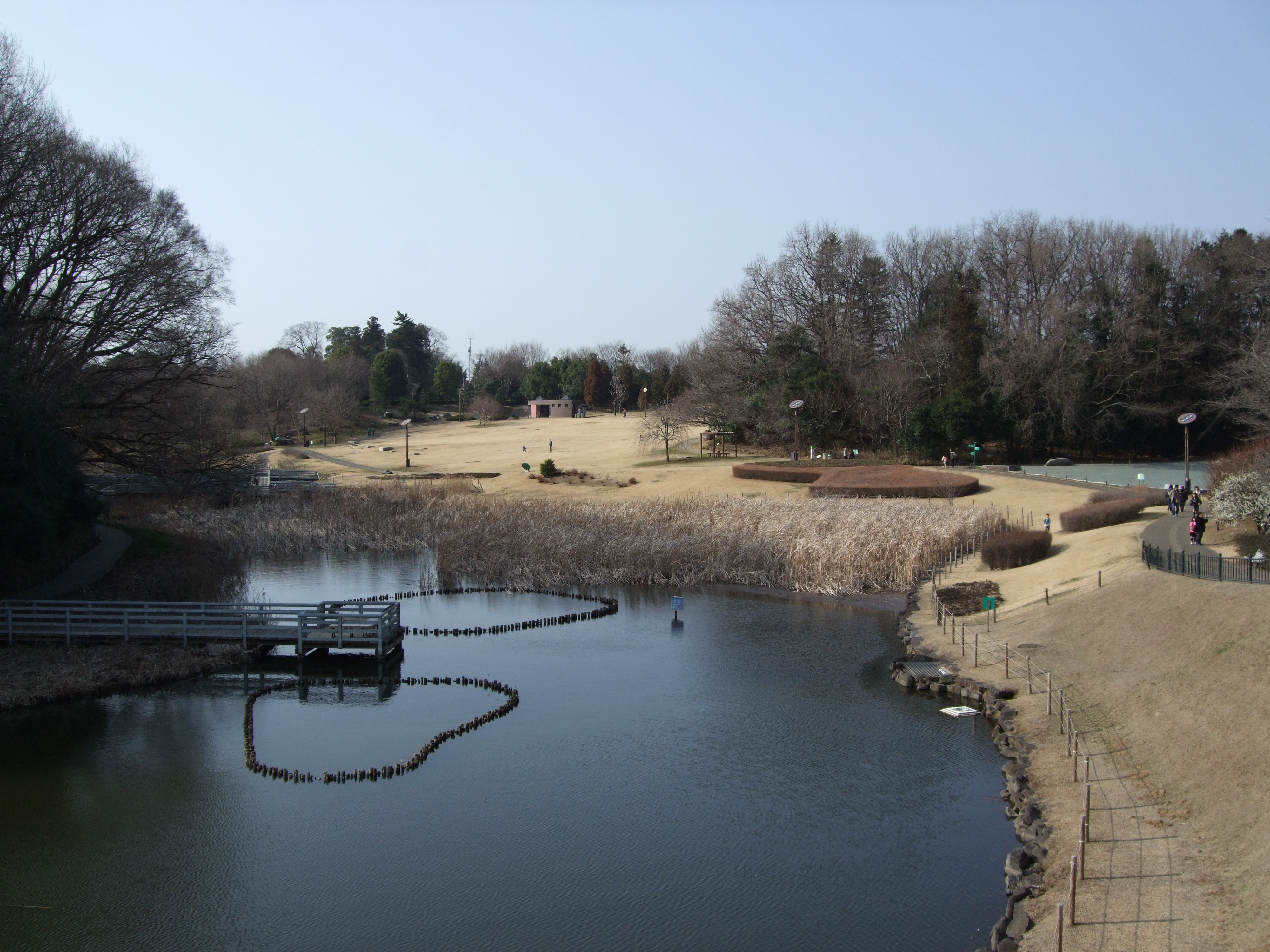 Ibaraki Nature Museum